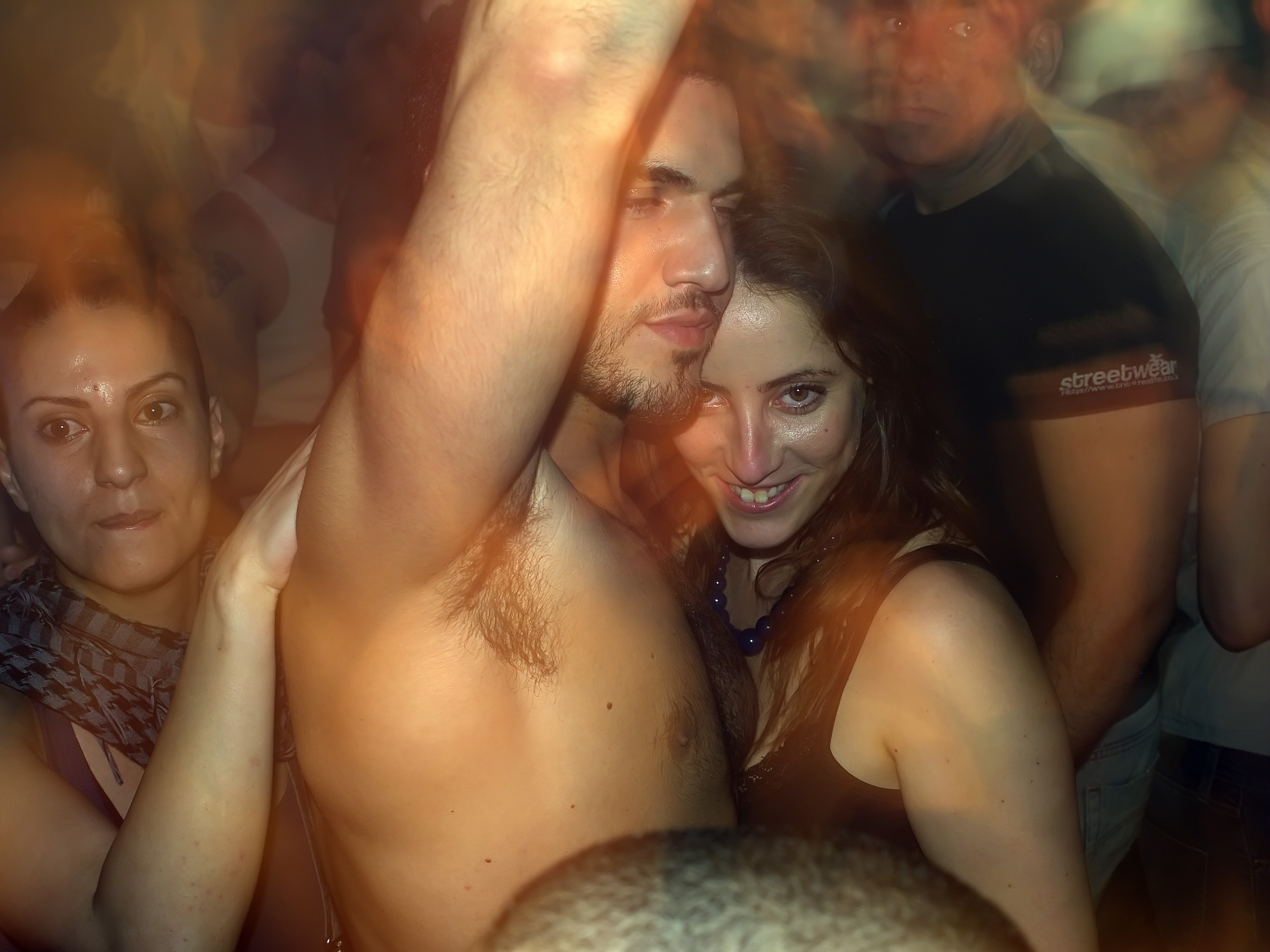 Patrons at nightclub TLV in Tel Aviv, Israel when Offer Nissim was spinning. Photographer's blog posts about photo and the event.